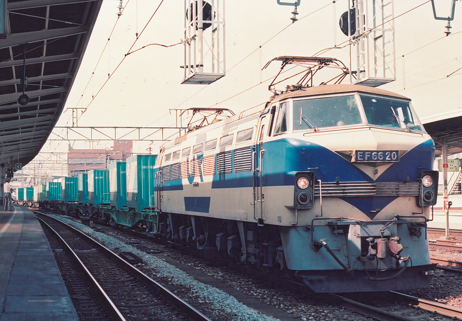 JR Freight Class EF66 electric locomotive EF66 20 in experimental livery passing through Okayama Station on a container train